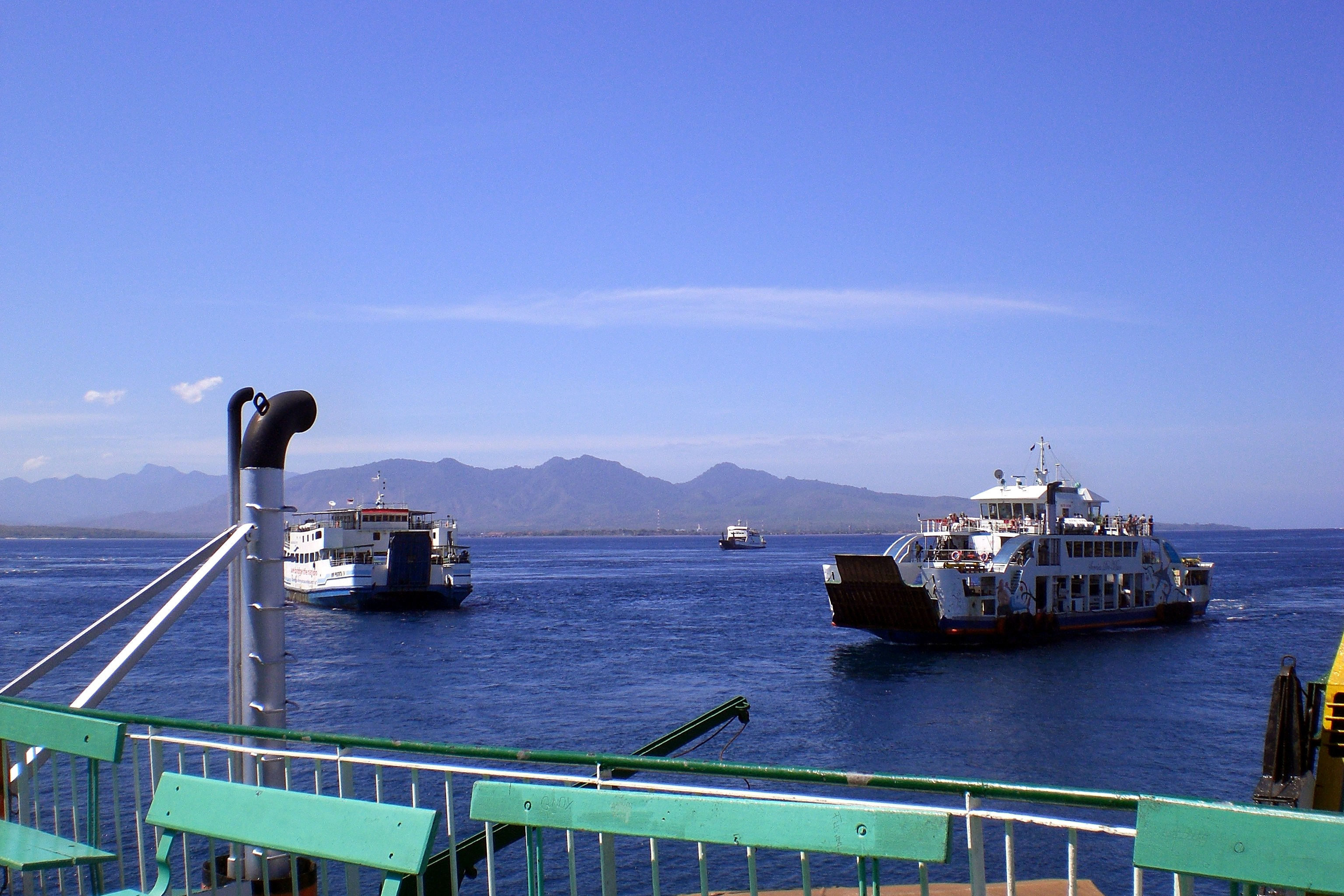 Ferrys leaving at Ketapang Seaport, Java